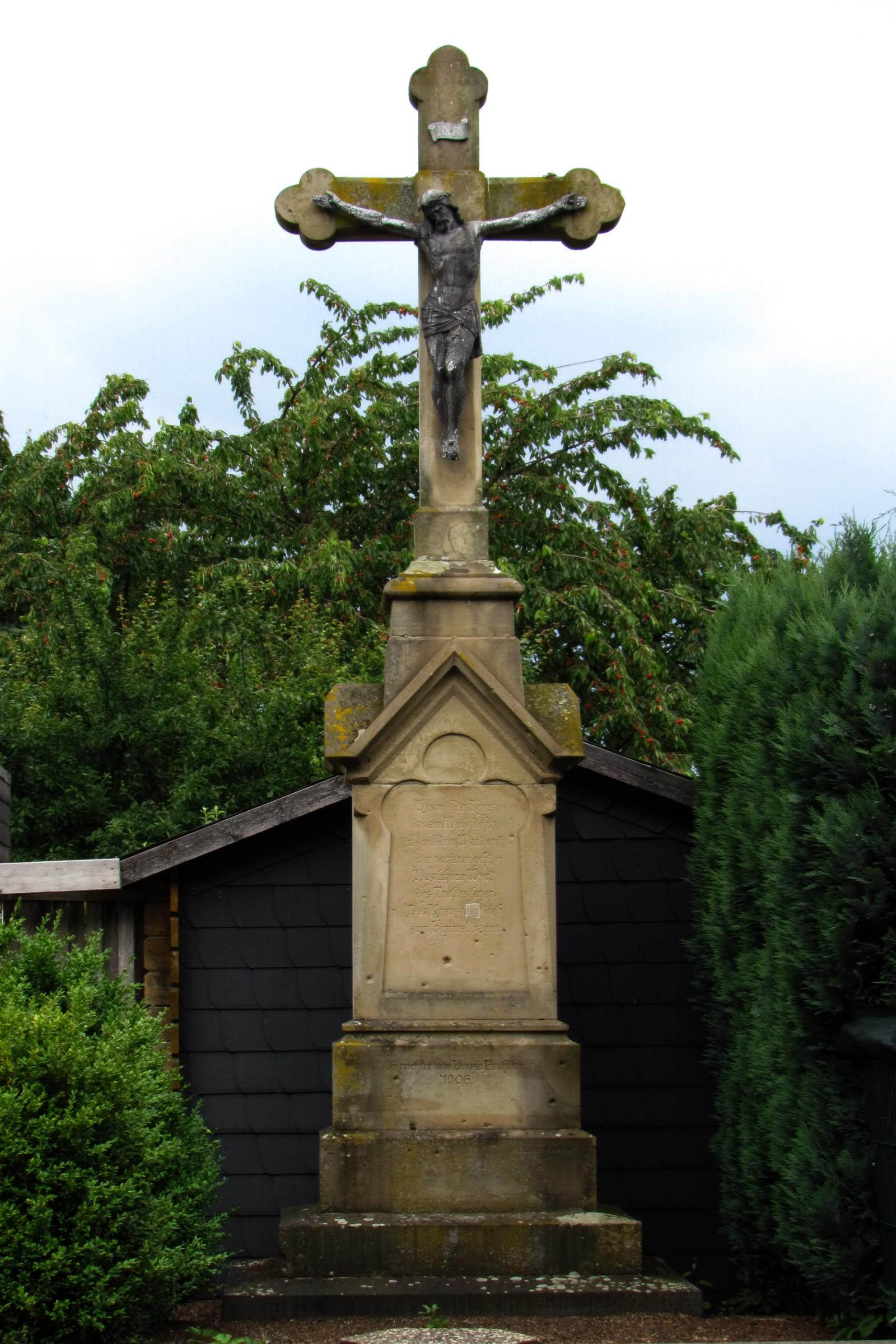 This is a photograph of an architectural monument.It is on the list of cultural monuments of Korschenbroich